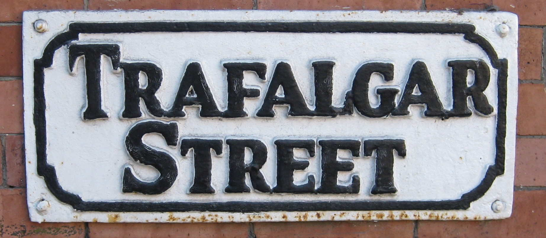 Street sign "Trafalgar Street" of old appearance in Leeds. The street was first constructed about 1815.